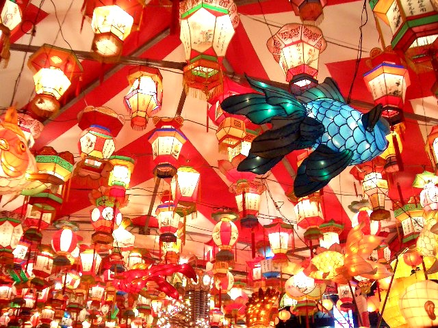 Nagasaki Lantern Festival held during Chinese New Year Season.Nagasaki Lantern Festival 2006